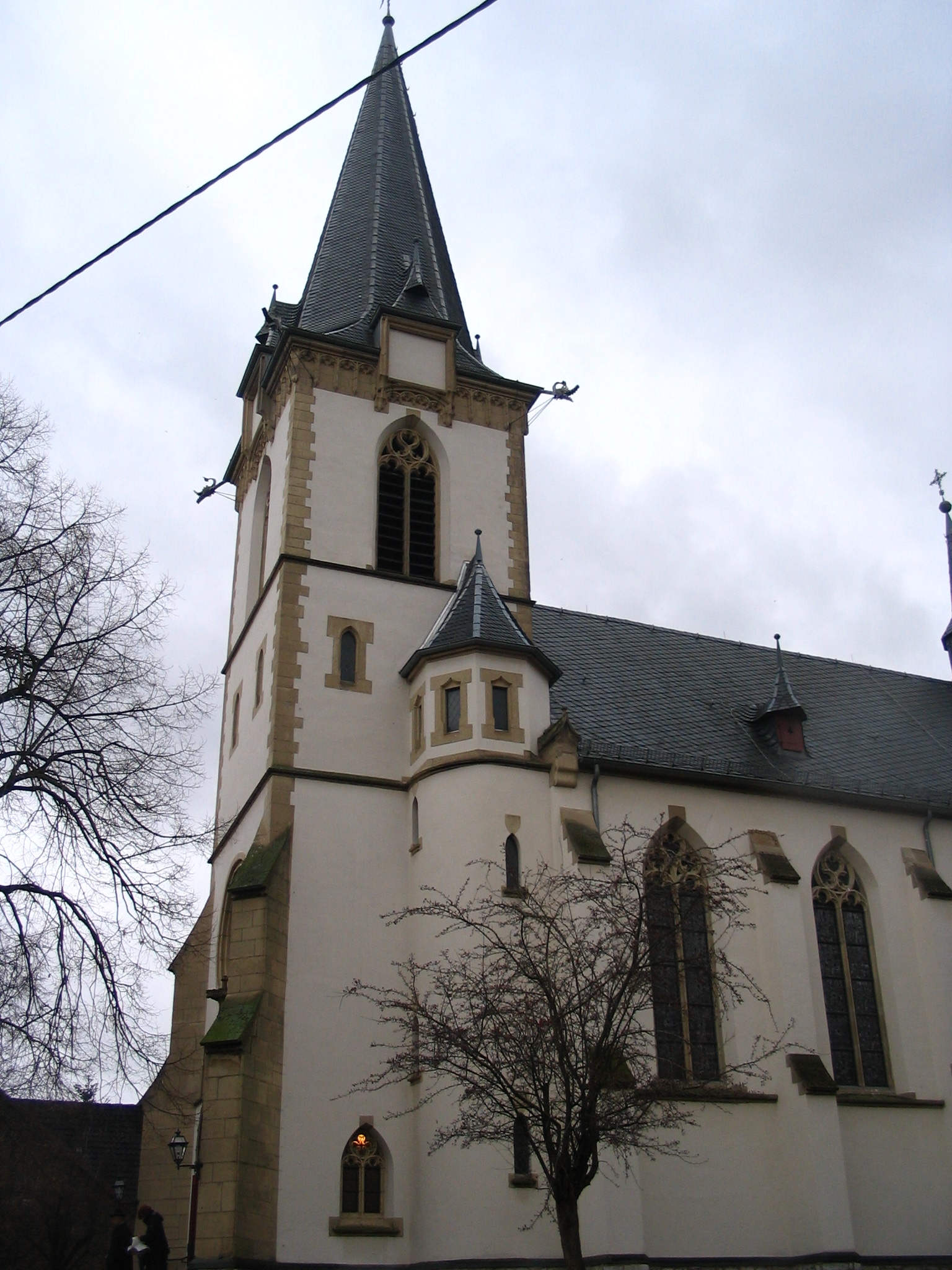 Catholic curch in Langenlonsheim, Germany